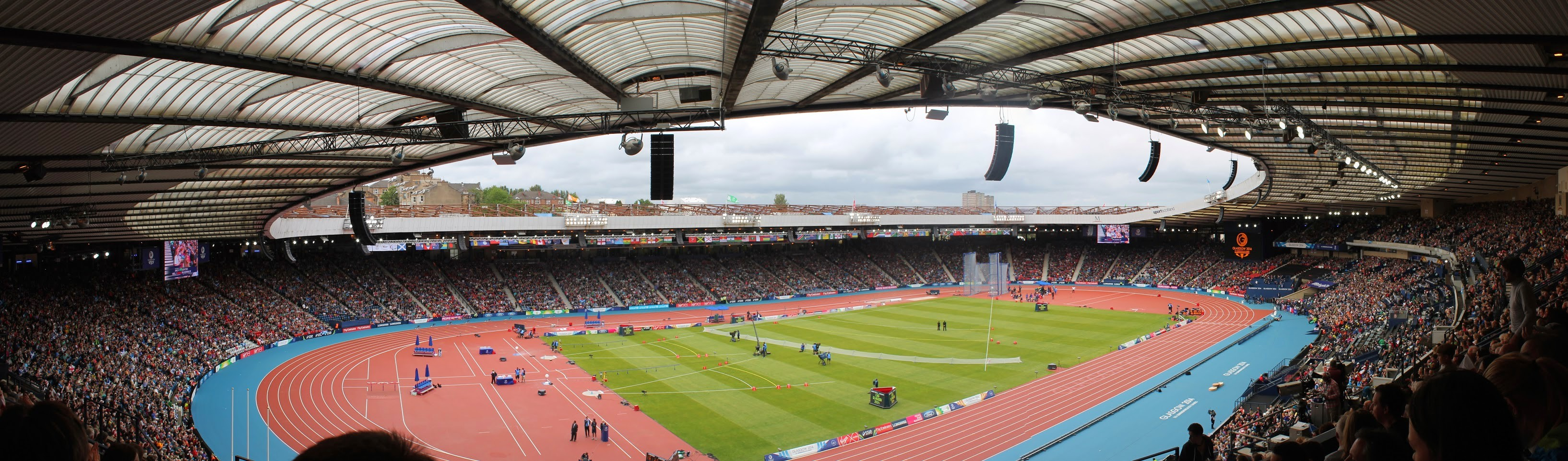 Hampden Park (panorama), Commonwealth Games, Glasgow 2014